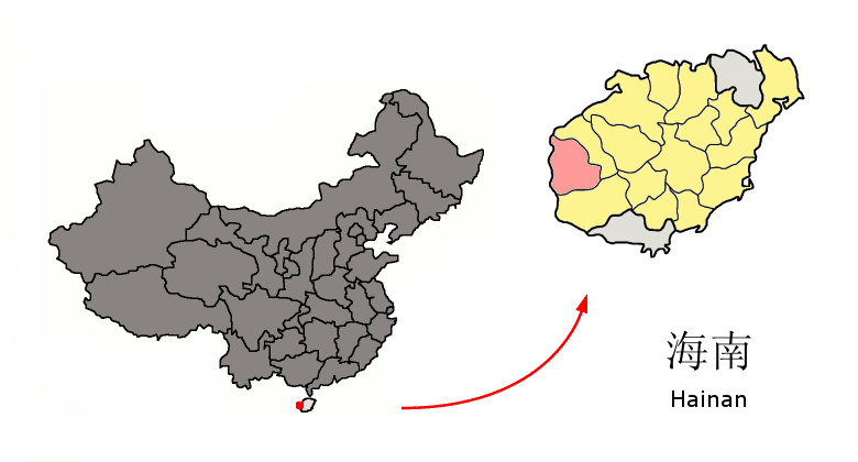 Location of Dongfang City (pink) and the subdivisions directly administered by the province (yellow) within Hainan province of China Map drawn in september 2007 using various sources, mainly : Hainan Counties map from